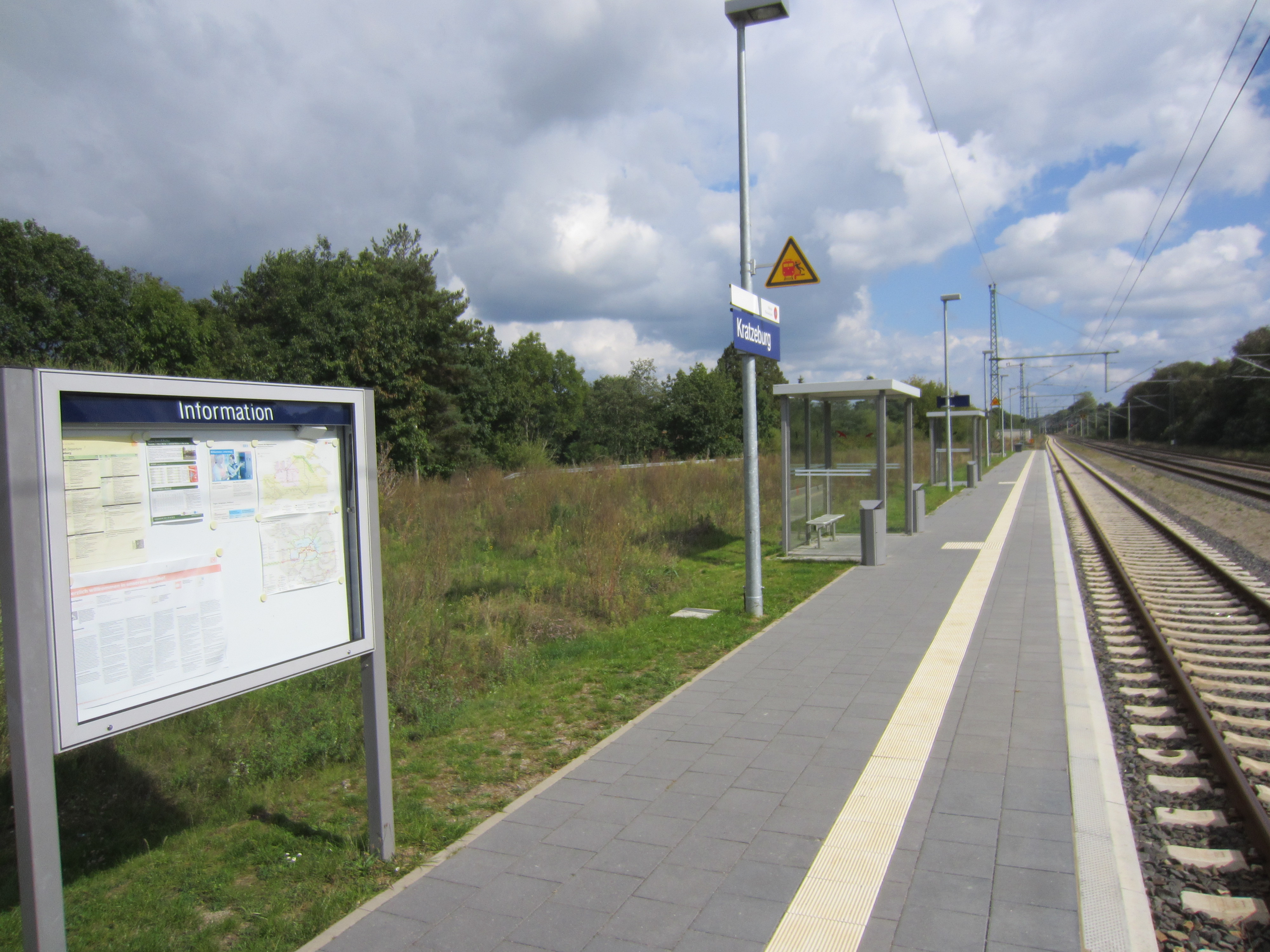 Train stop in Kratzeburg.